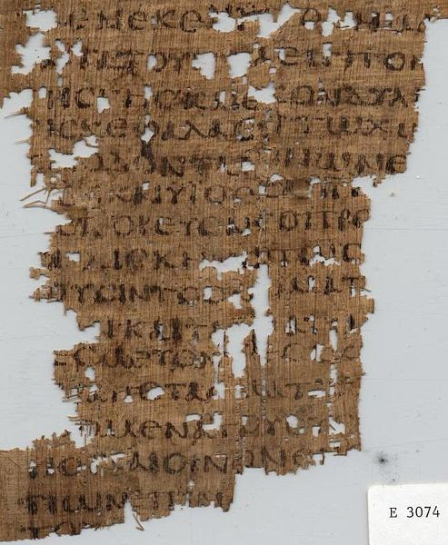 Amos 2 written c. 750 BC. Copied by scribe c. 550 AD. Found Grenfel and Hunt c. 1900. Published in 1908. Owned by UPenn.